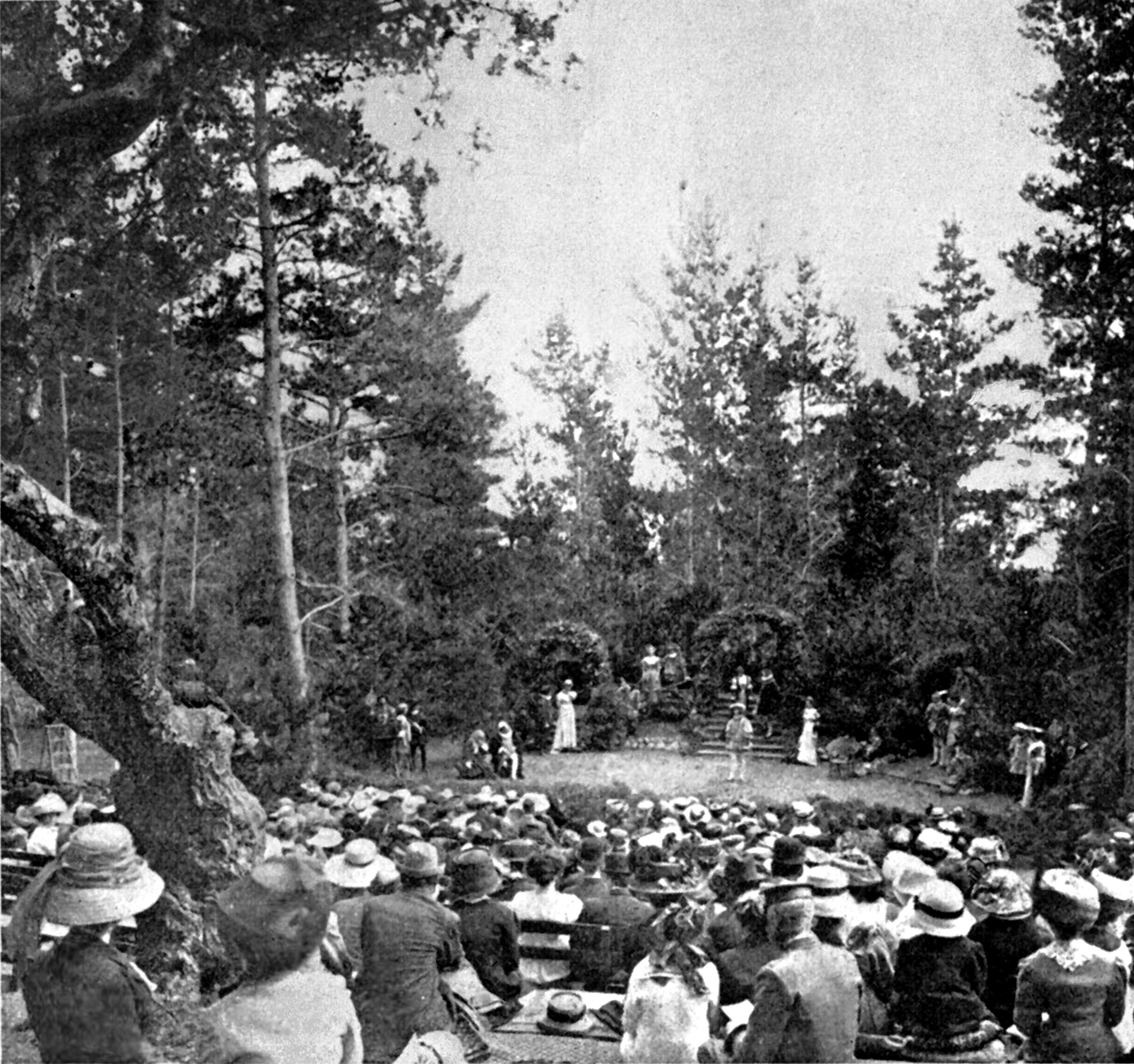 1911 Forest Theatre play "Twelfth Night" which appeared in the Overland Monthly in 1916